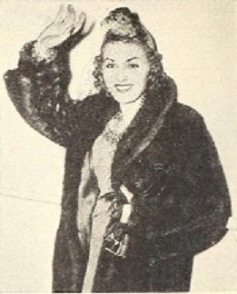 Grace Bradley